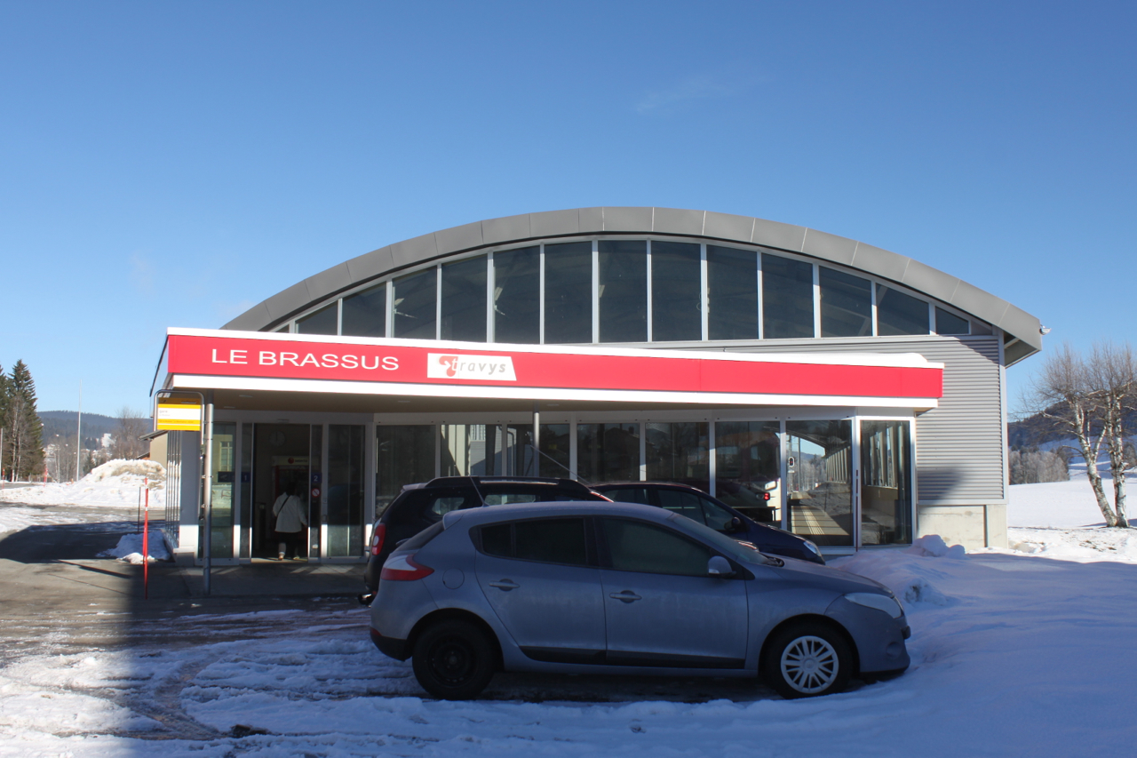 Le Brassus train station.